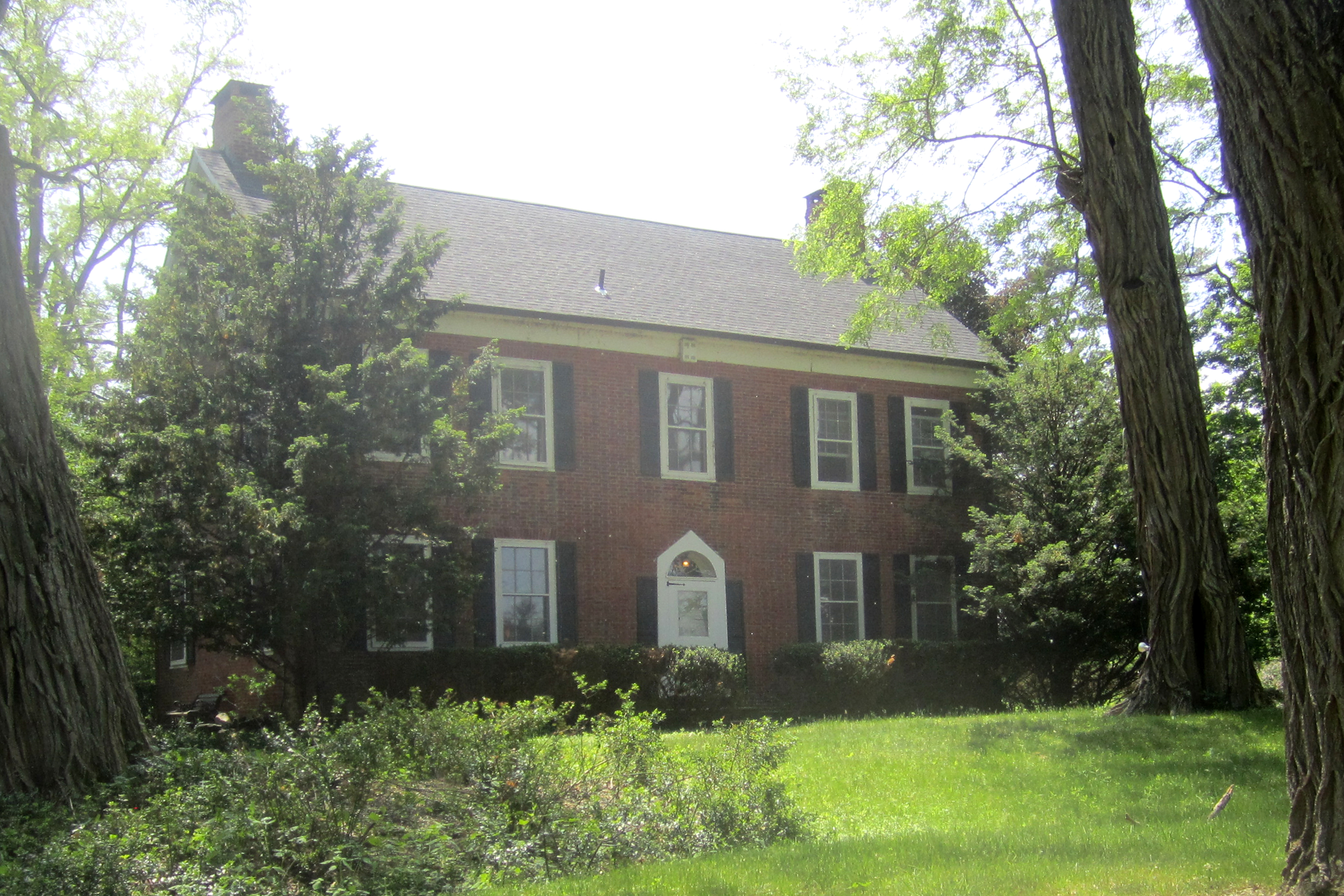 Home of Nicholas Vischer and his son Eldert Vischer in Vuscher Ferry, New York. The oldest portion of the house dates from the around 1740 and is believed to be the oldest home now standing in the town of Clifton Park.